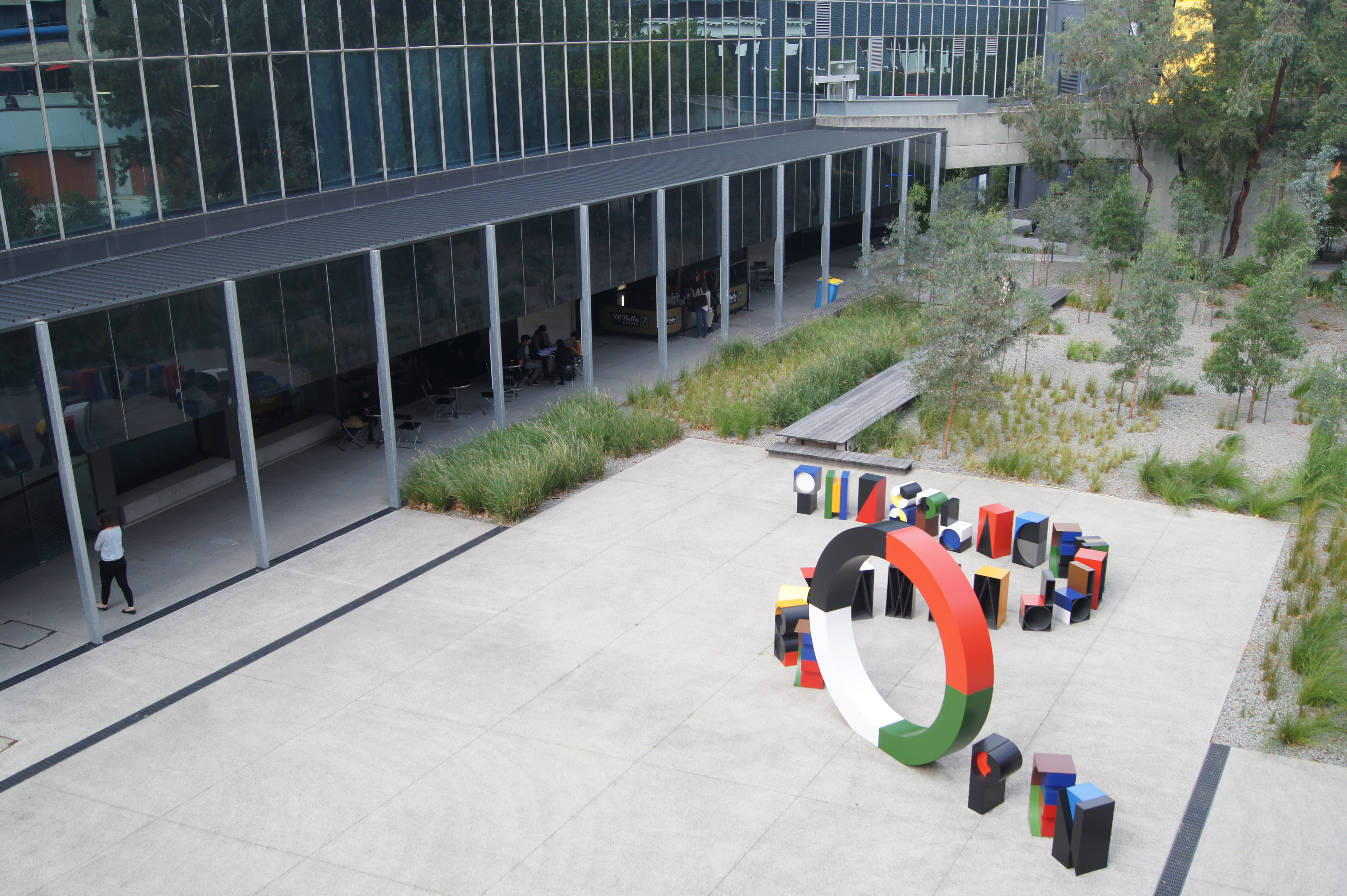 Photo of sculpture forecourt